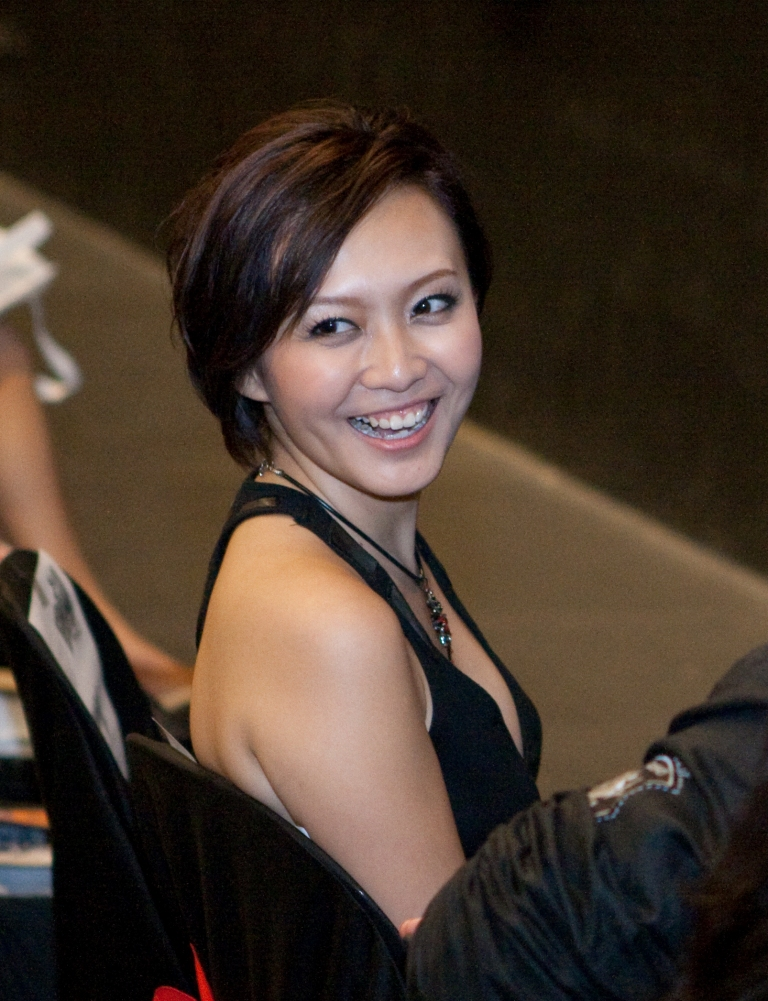 Photo of Ning at media awards 2011